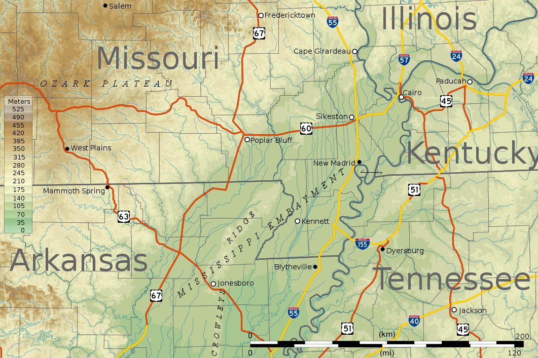 Topographic map of the Bootheel region of Missouri and the surrounding areas of Missouri and neighboring states. Created from public domain data from the National Atlas of the U.S., and incorporating public domain highway shields from Wikimedia Commons. Projection UTM zone 15N (EPSG:26915)